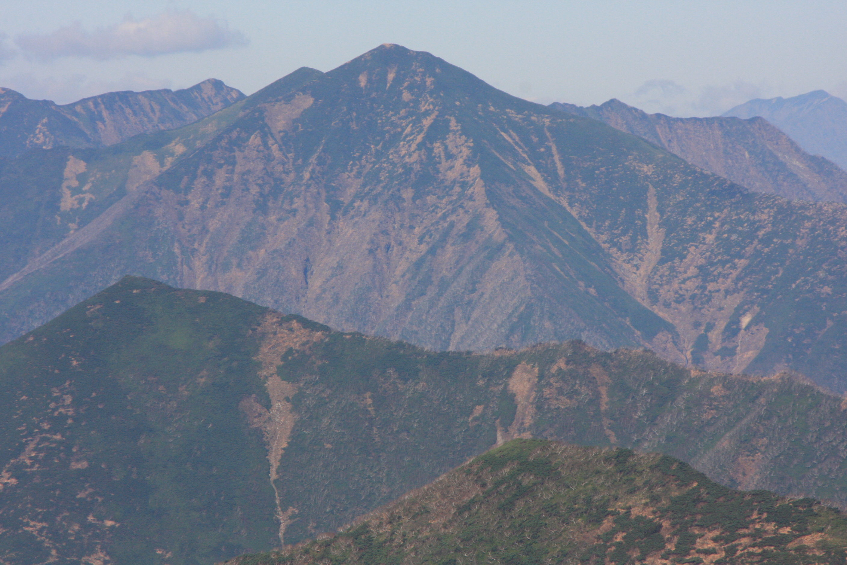 The SSE side of Mount Petegari (Petegari-dake) as seen from Mount Kamui.